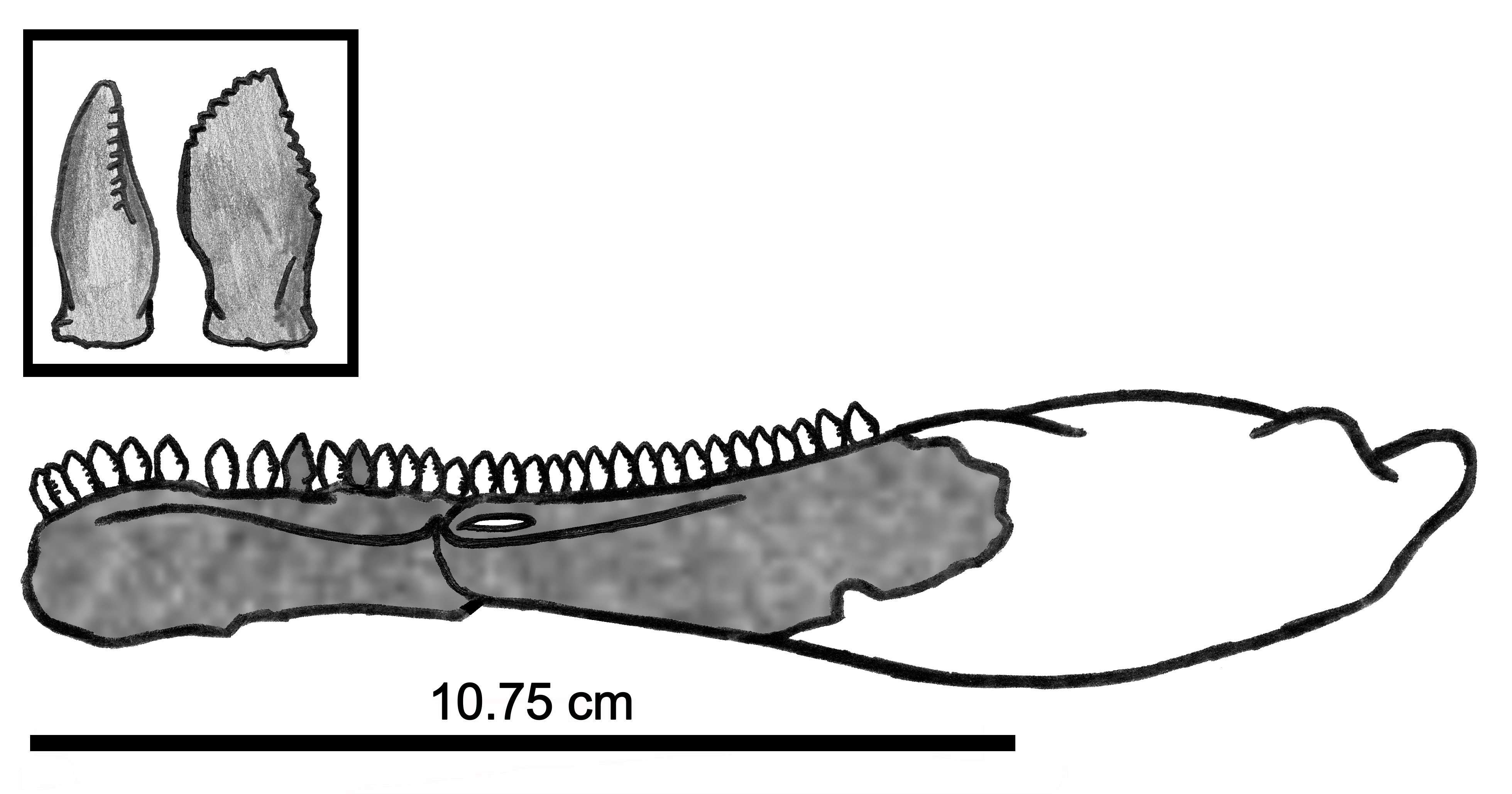 Known material after the dinosaur Eshanosaurus. Originally descirbed as a member of Therizinosauroidea (Theropoda), some scientists has claimed it t be a member of the Prosauropoda. References Xu X, Clark J. M. & Zhao X (2001), ”A new therizinosaur from the Lower Jurassic Lower Lufeng Formation of Yunnan, China”, Journal of Vertebrate Paleontology 21(3): p. 477-783.